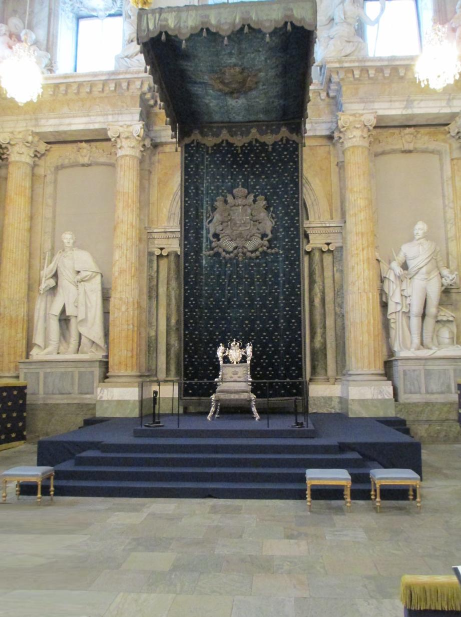 Throne Room as shown to public on National DayPlace: Stockholm Palace, Sweden